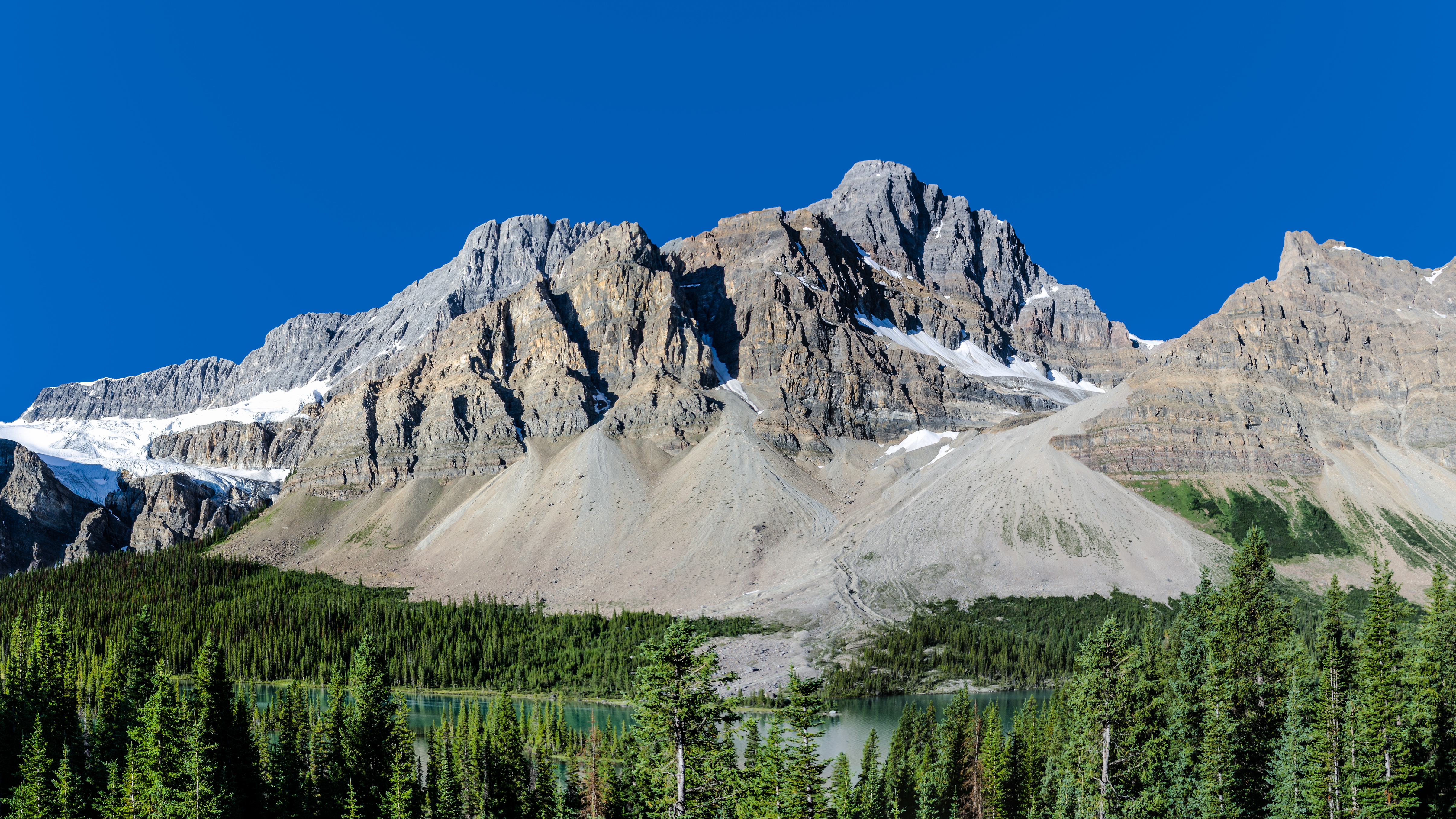 Bow Lake near Icefields Parkway and Crowfoot Mountain, Alberta, Canada